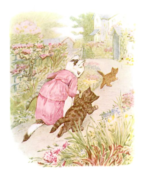 Title illustration from The Tale of Tom Kitten